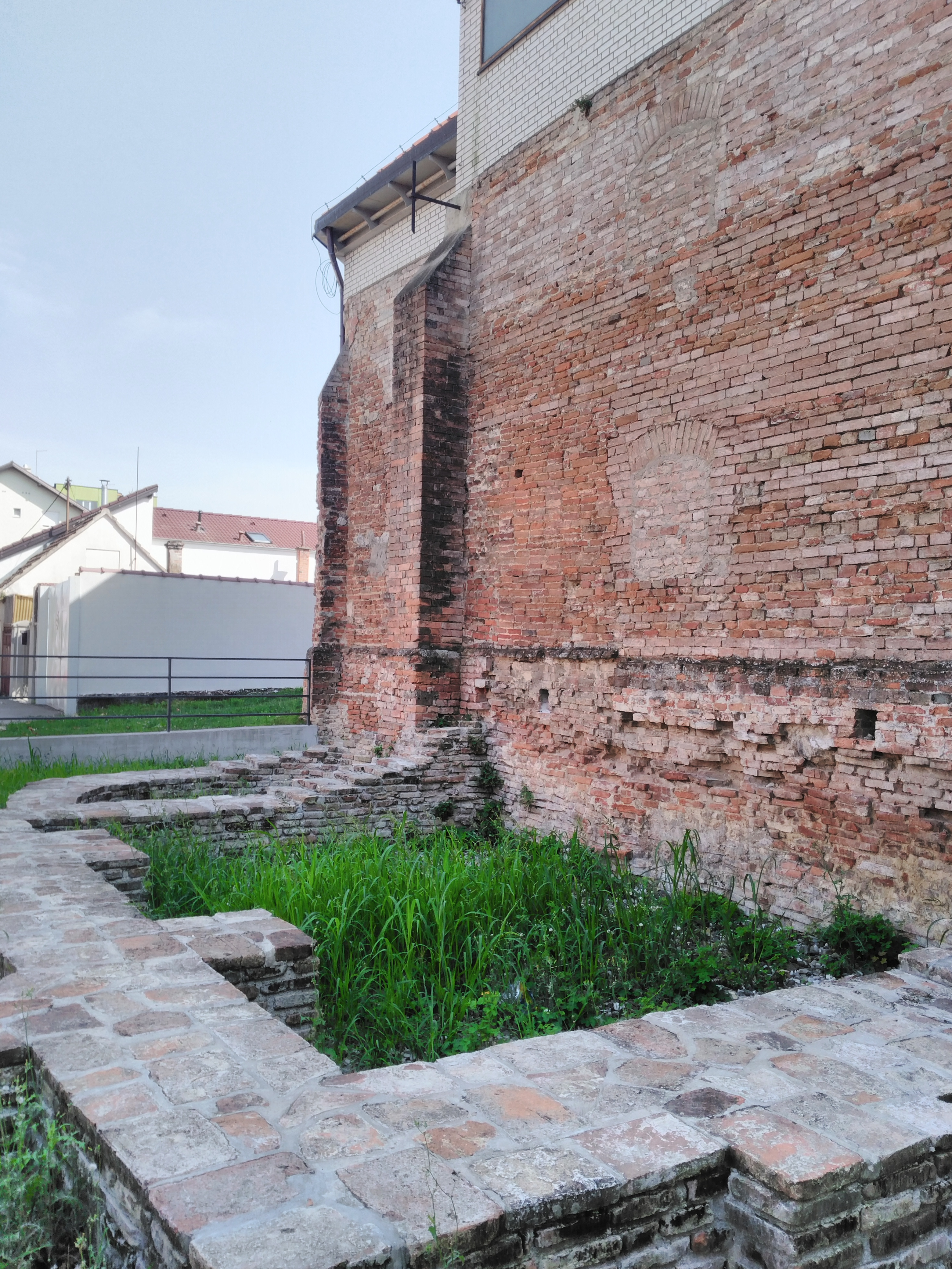 Church of St. Elijah in Vinkovci